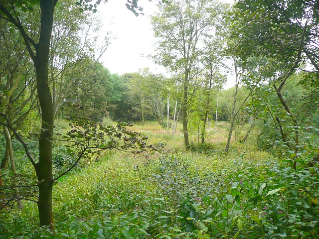 The former Rishworth railway station, Barkisland This was the terminus of the line from Sowerby Bridge up the Ryburn Valley. It was intended to continue to Lancashire, but this never happened. The OS map shows what might be the remains of platforms, but nothing can now be seen of them but piles of rubble amongst the vegetation.